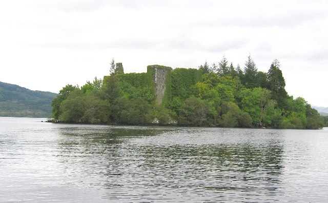 Small island in Loch Awe with excellent castle ruins - formerly a stronghold of the Campbells